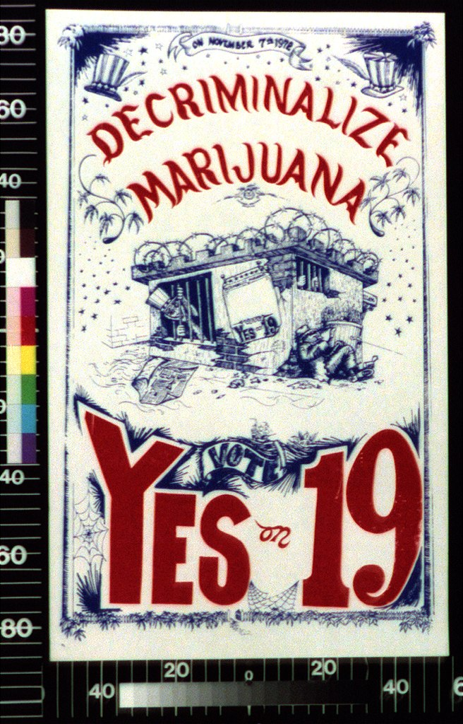 Title: On November 7th, 1972, decriminalize marijuana : Vote yes on 19 Abstract: 1 print : color ; (poster format)